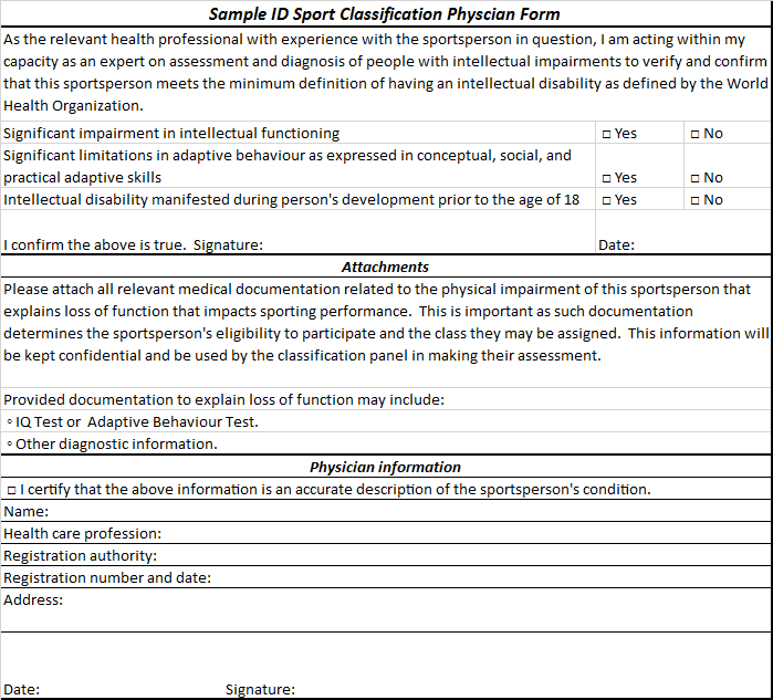 Sample form used by physicians for ID sport classification.